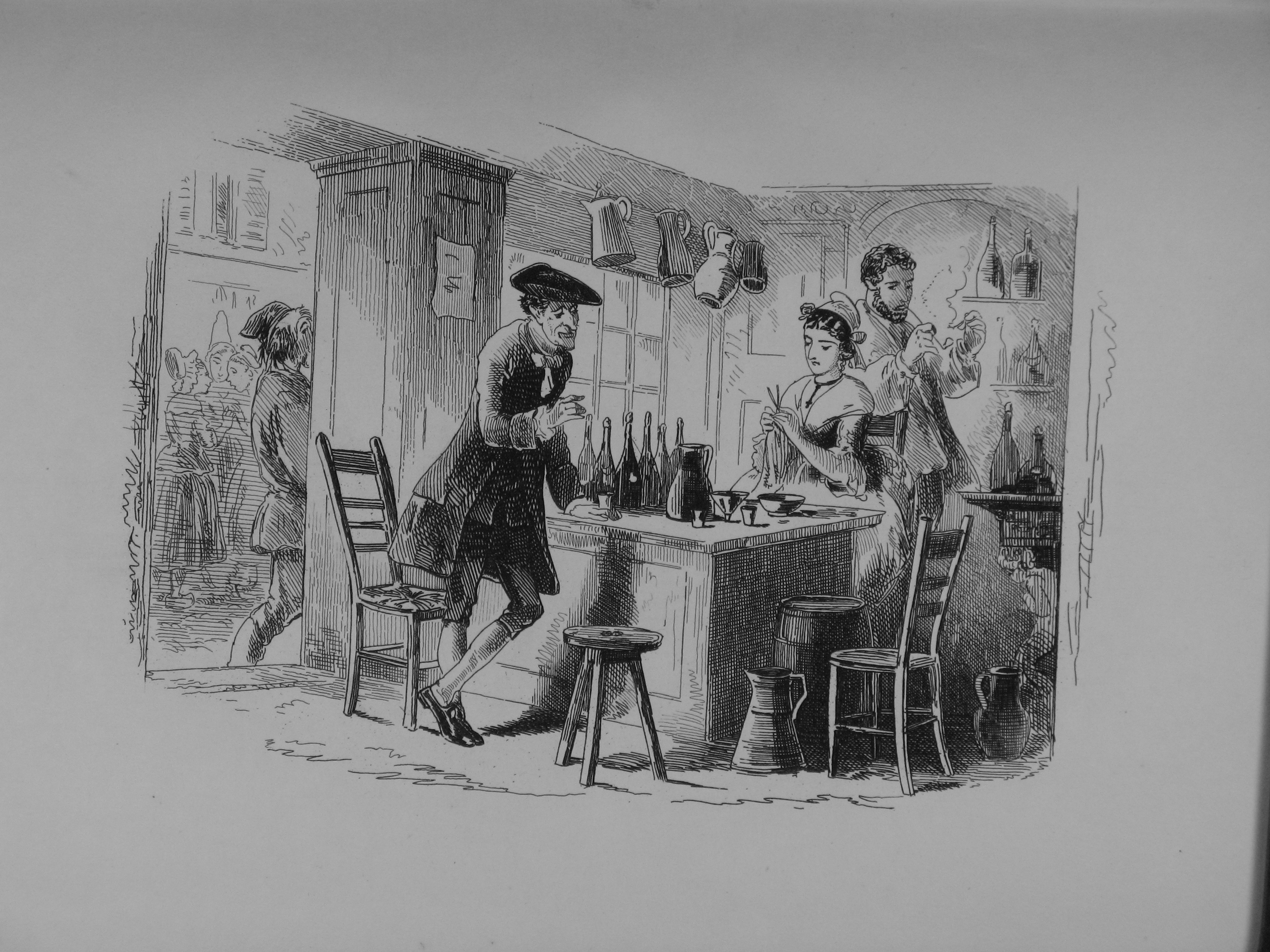 A photograph of an engraving in The Writings of Charles Dickens volume 20, A Tale of Two Cities, titled "The Wine Shop".